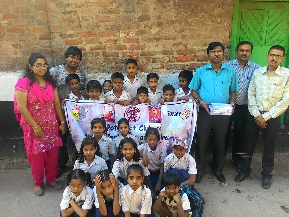 Rotaract Club of MCKV Institute of Engineering